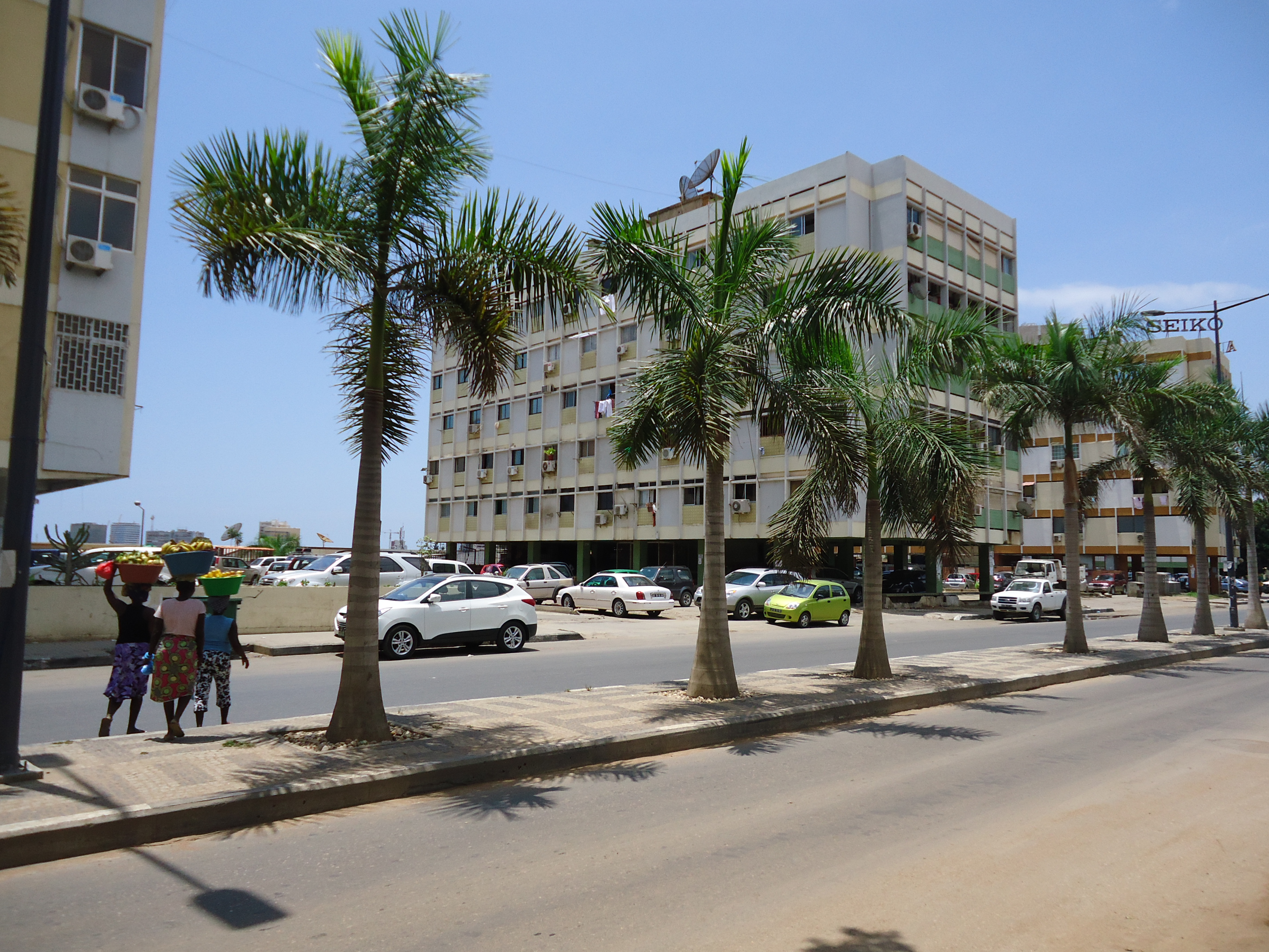 Street of Luanda. Photo by Fabio Vanin, Luanda, 2013.